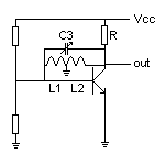 Hartley oscillator